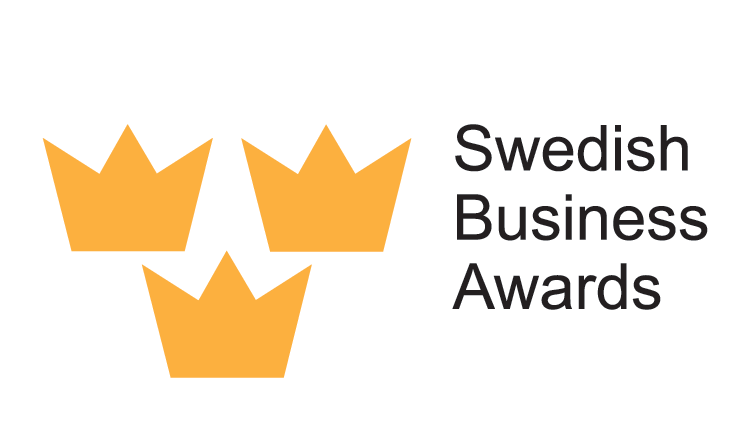 Swedish Business Awards Logo